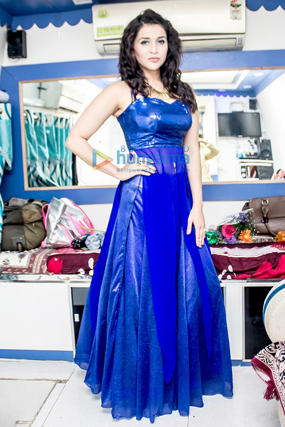 Mannara Chopra performs at Country Club’s New Year bash in Bangalore